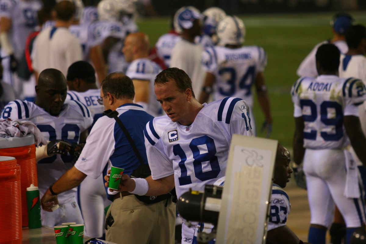 Jags vs Colts Monday Night Football